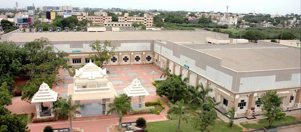 Chennai Trade Center has become the landmark of Nandambakkam. It was set up in 2001 by the India Trade Promotion Organisation (Government of India) and Tamil Nadu Industrial Development Corporation (Government of Tamil Nadu) as a joint venture. Spread over 25.48 acres, the Centre has three large Exhibition Halls and a Convention Centre.